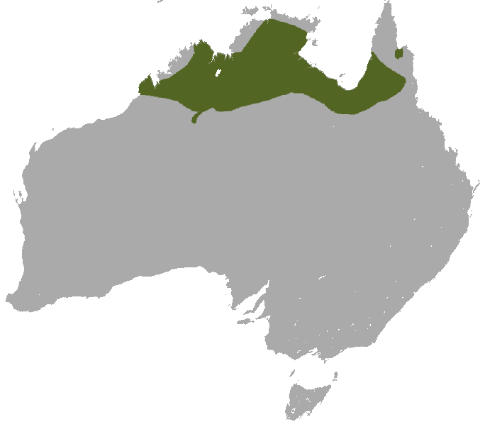 Northern Nailtail Wallaby (Onychogalea unguifera) range